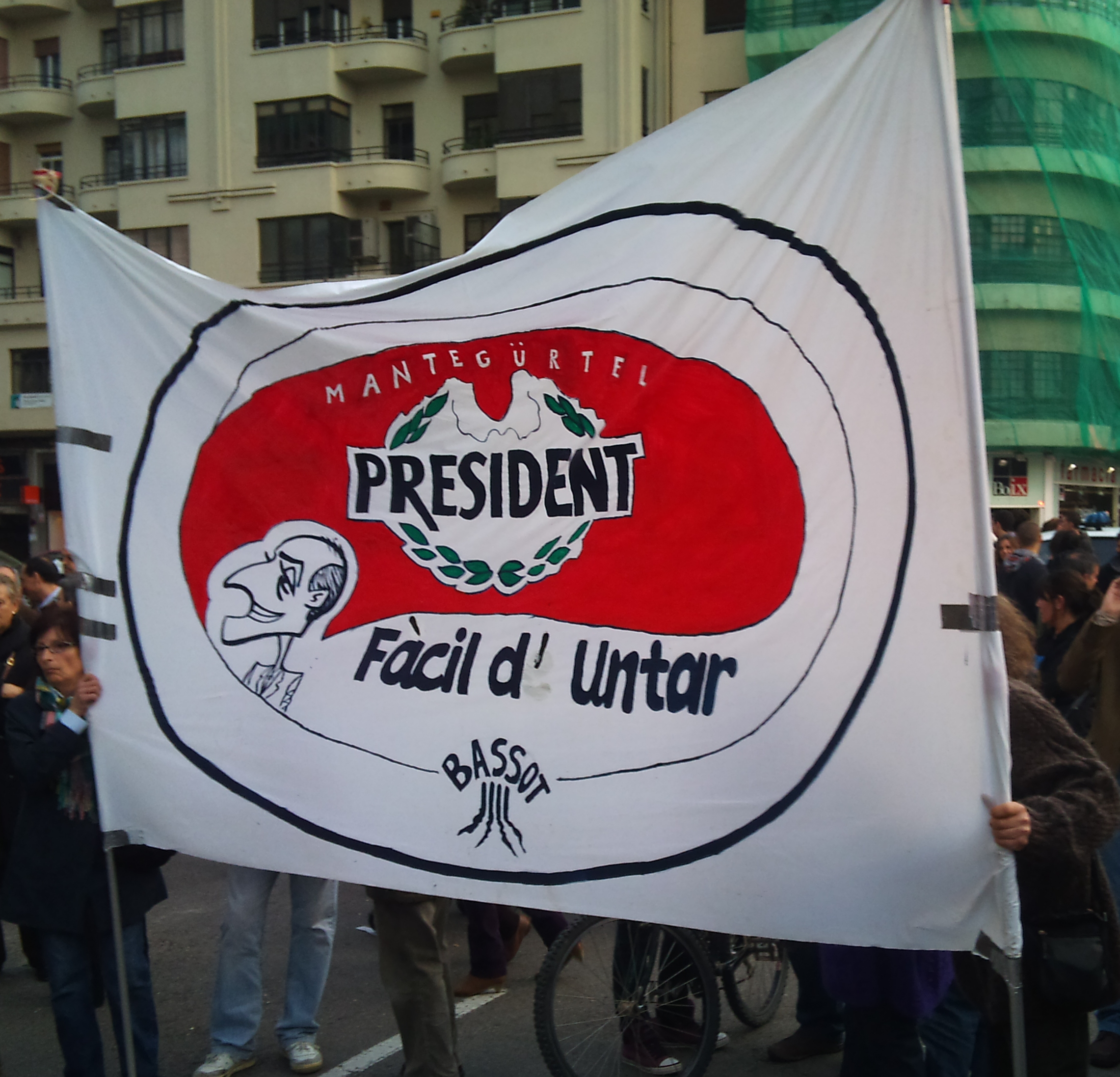 Demonstration against corruption in València, 26 of march, 2011.